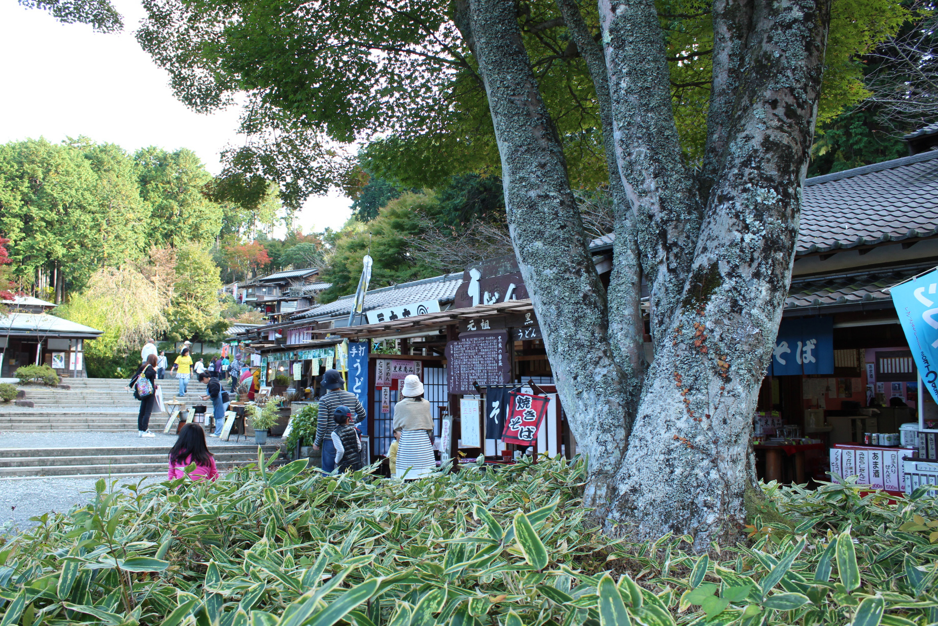 Shuzenji Nijinosato's Izu Village in Izu, Shizuoka Prefecture, Japan